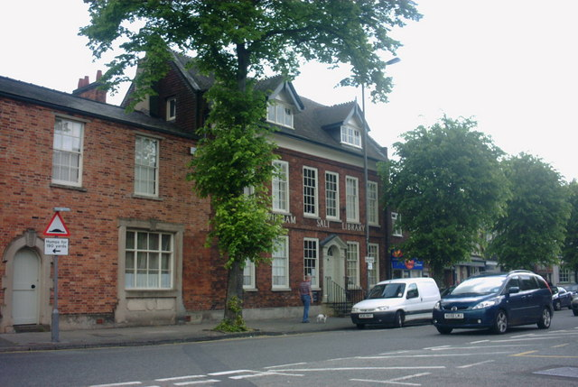 A view of the William Salt Library on Eastgate Street, viewed from Martin Street, Stafford, England. The library holds many old documents, records and books specifically related to Stafford and the local area.